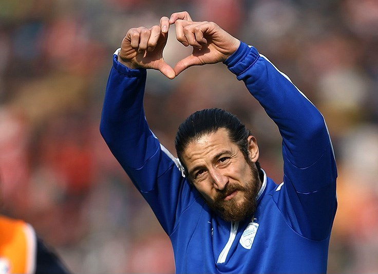 Ando Teymourian before 78th Esteghlal-Perspolis derby.